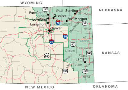 From